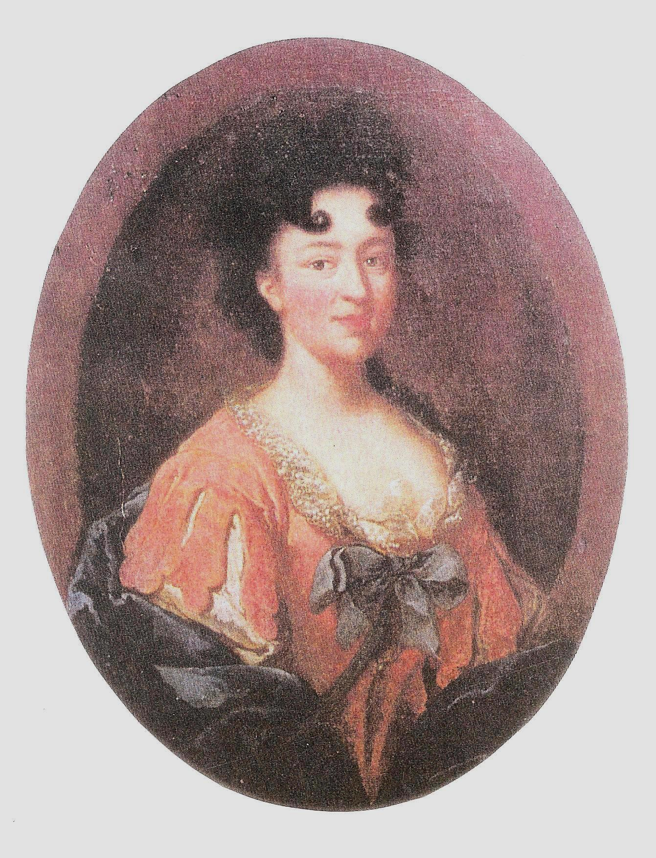 Dorothea of Schleswig-Holstein-Sonderburg-Plön, duchess of Mecklemburg-Strelitz